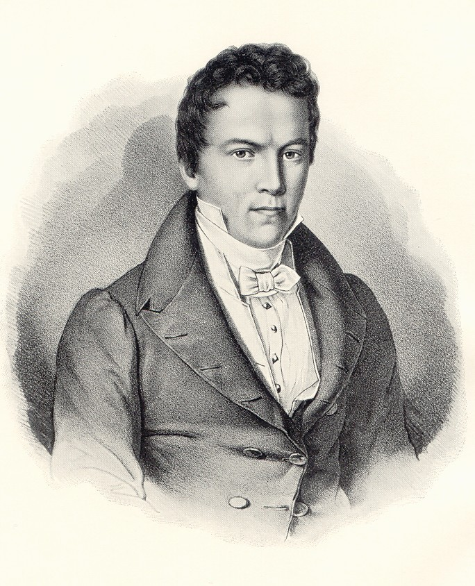 Image of Conrad (or Konrad) Melchior Hirzel (1793 - 1843), Mayor of the City of Zürich between 1832 and 1838